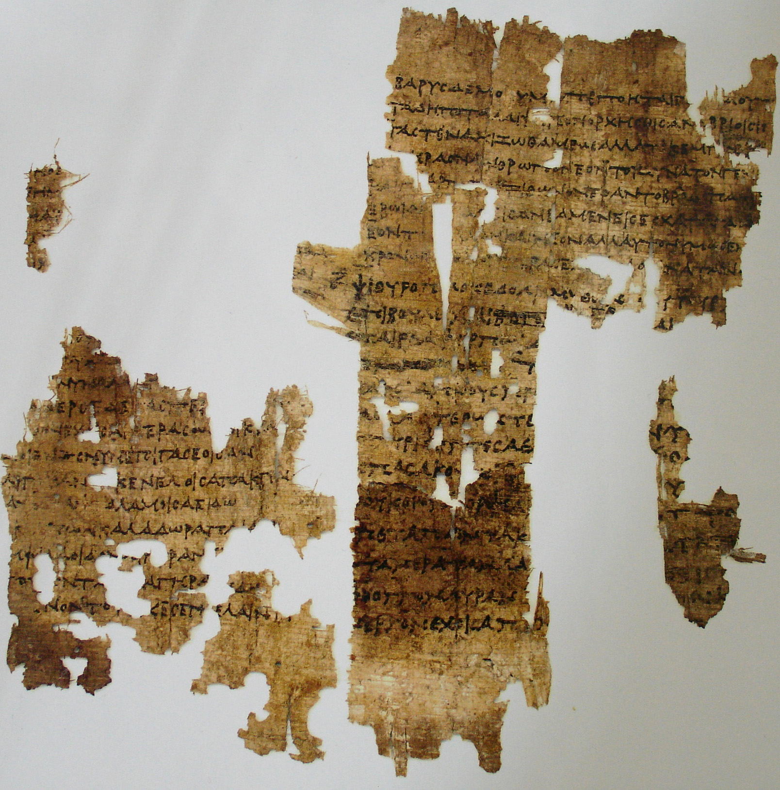 Saphhos' poem "An Old Age" (lines 9-20). Papyrus from 3 cent. B.C. The exhibit from Altes Museum Berlin. Copy of Cologne exhibit (image available here.)